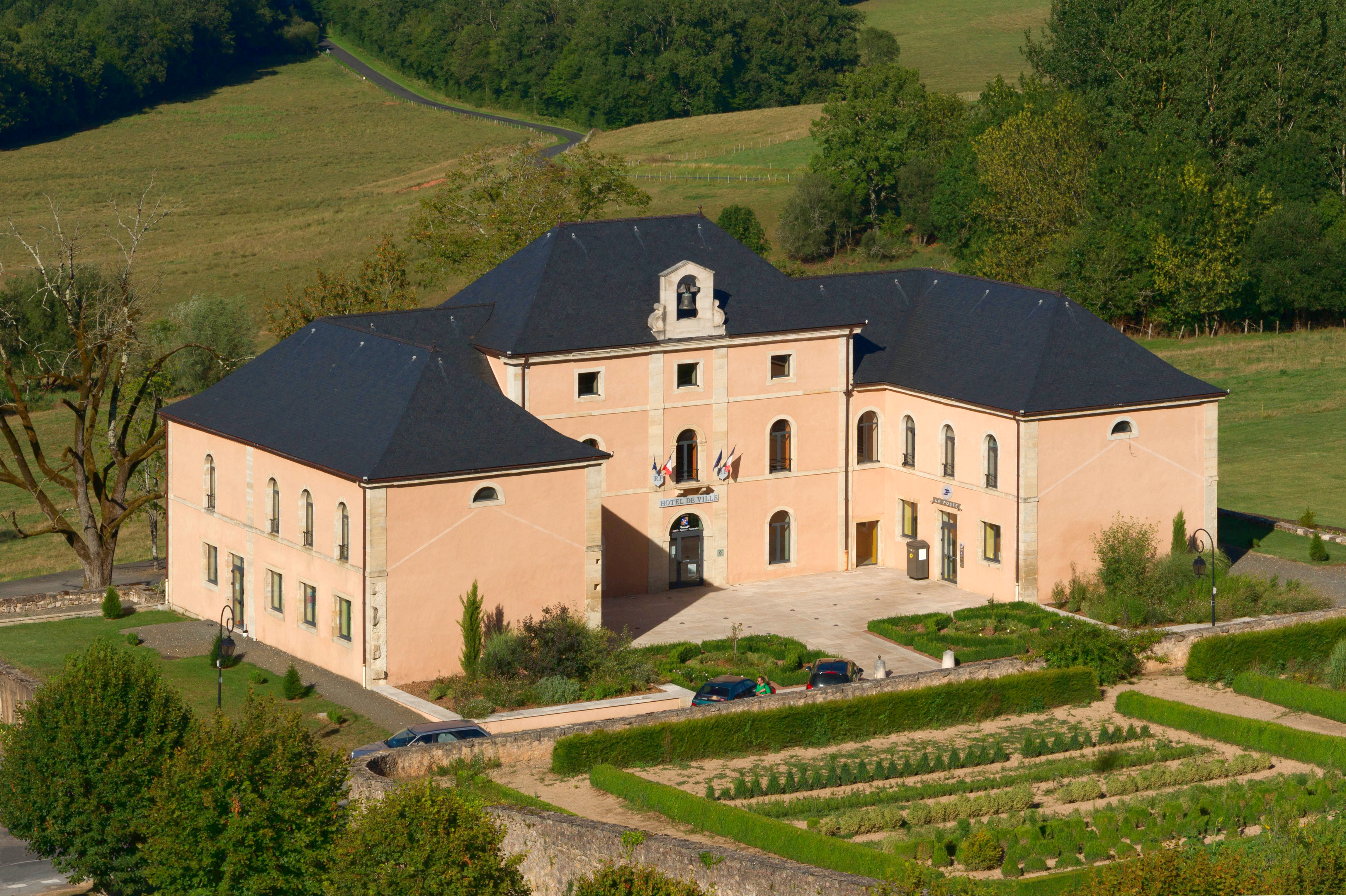 The Town hall and the post office, Hautefort, Dordogne, France.